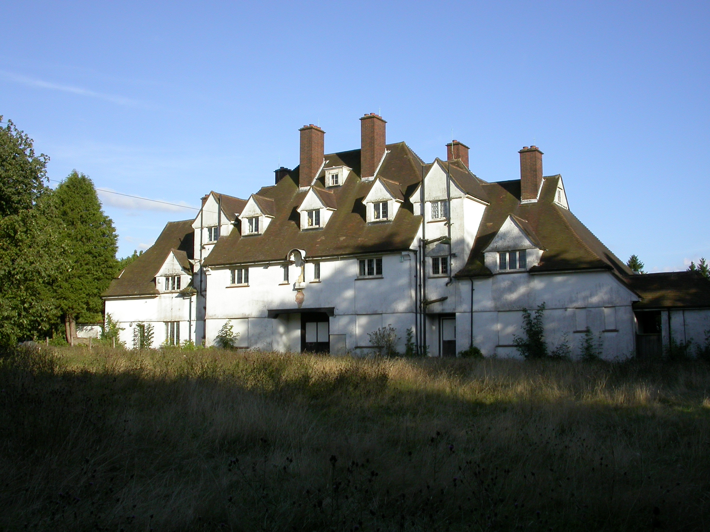 Buckston Browne Farm, Photograph taken by Nichola Morris